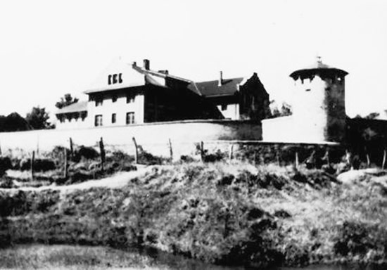 Historical photograph of the Weihsien Internment Camp in Weifang City, Shandong, China.